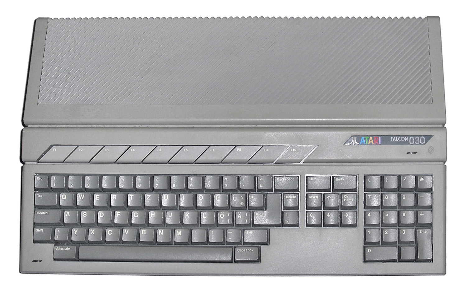 An Atari Falcon030 home-computer.